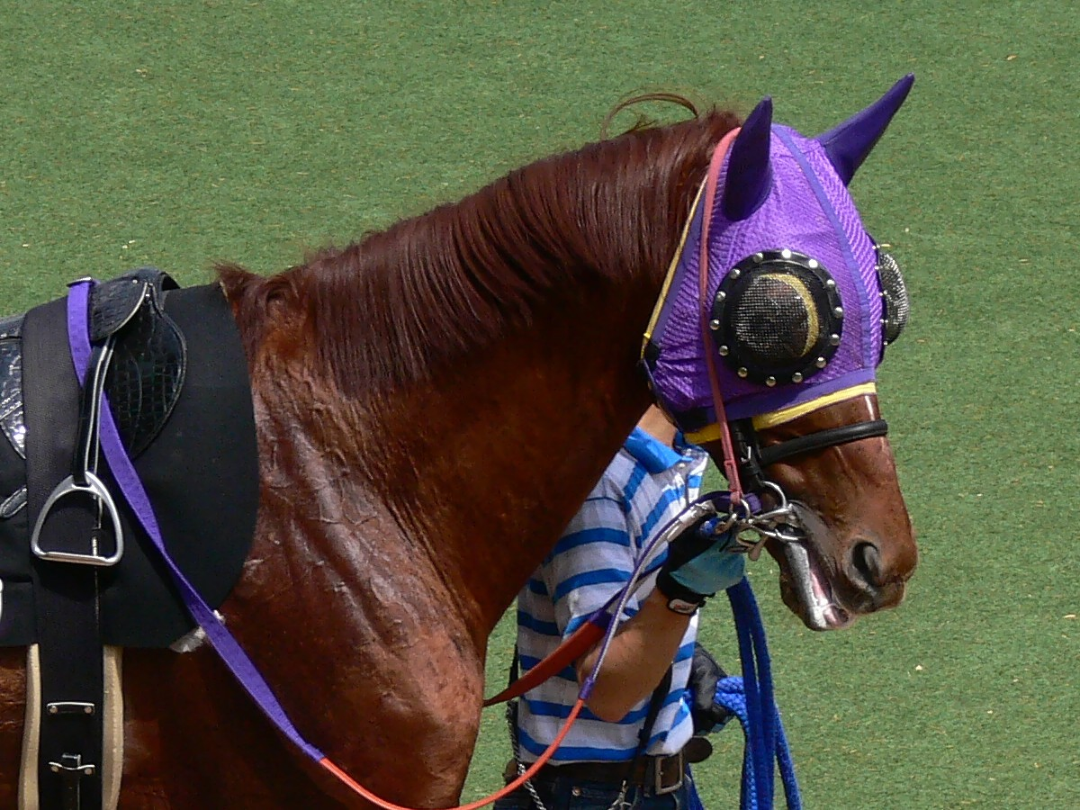 Horse is wearing pacifiers (horizon net) (Fujimasa champ(JPN)).